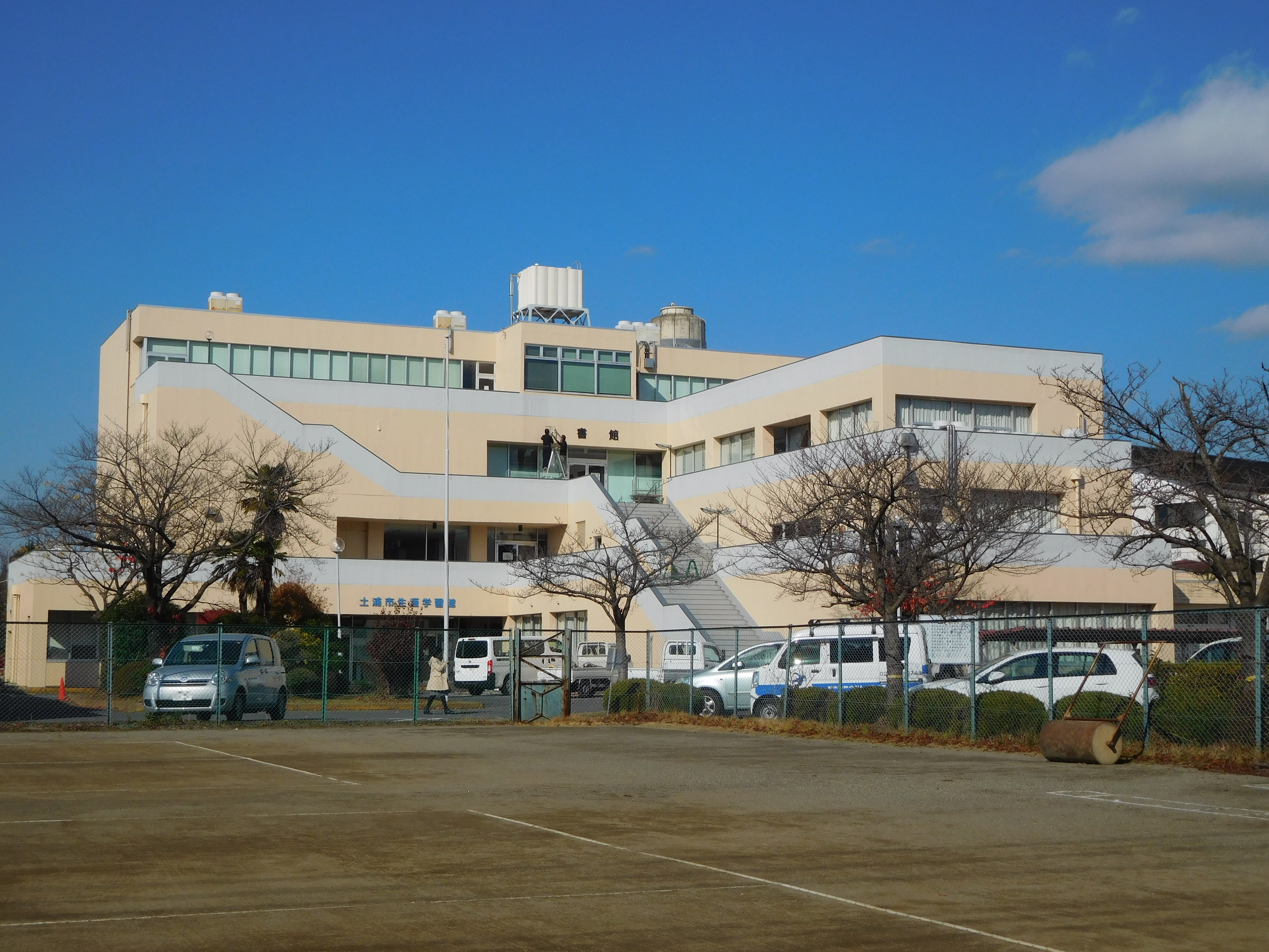 This is the Tsuchiura City Lifelong Learning Building or Shogai-Gakushu-Kan in Tsuchiura, Ibaraki, Japan.